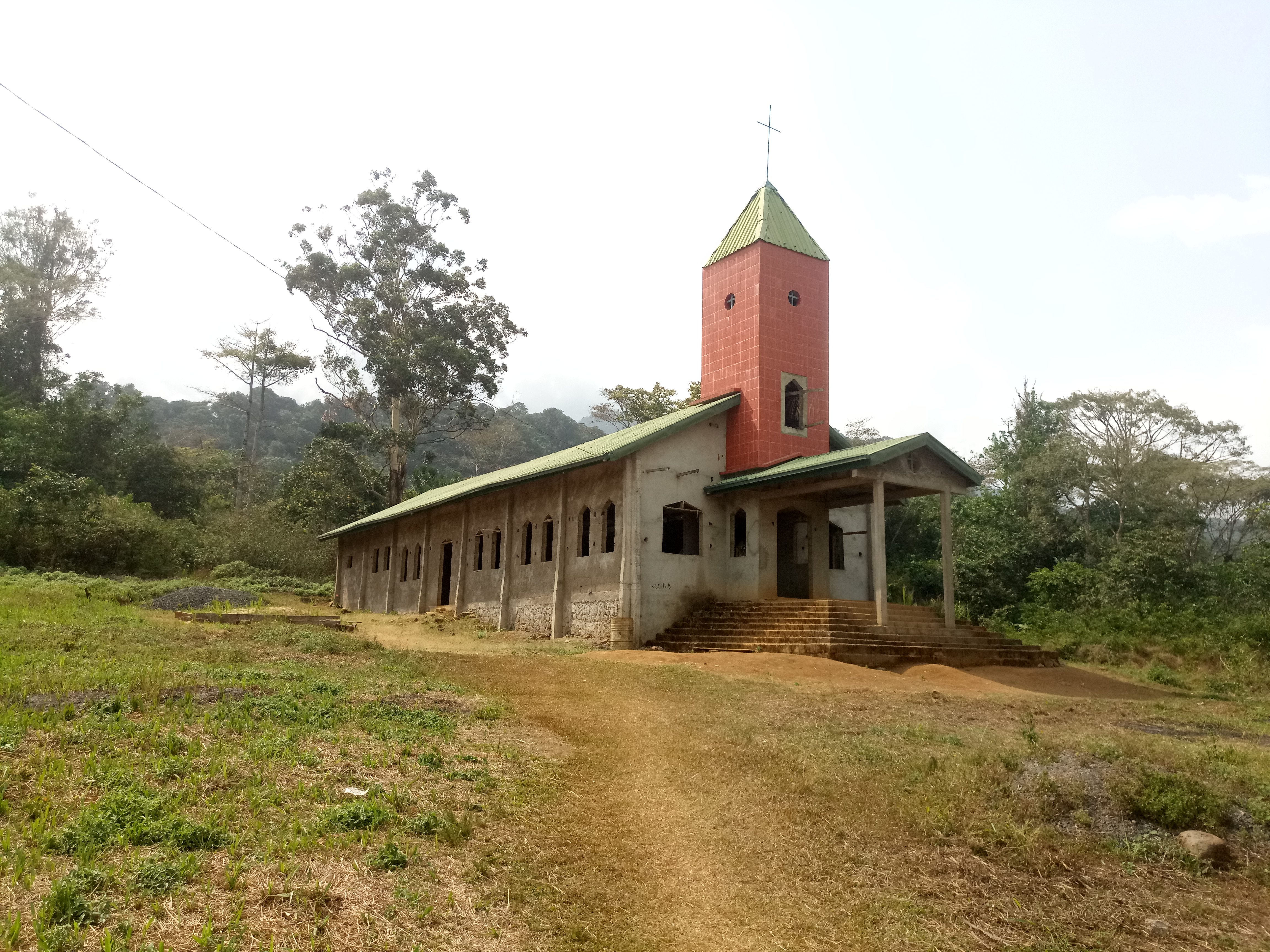 Place of worship for Presbyterian church Christians in Dikume Balue